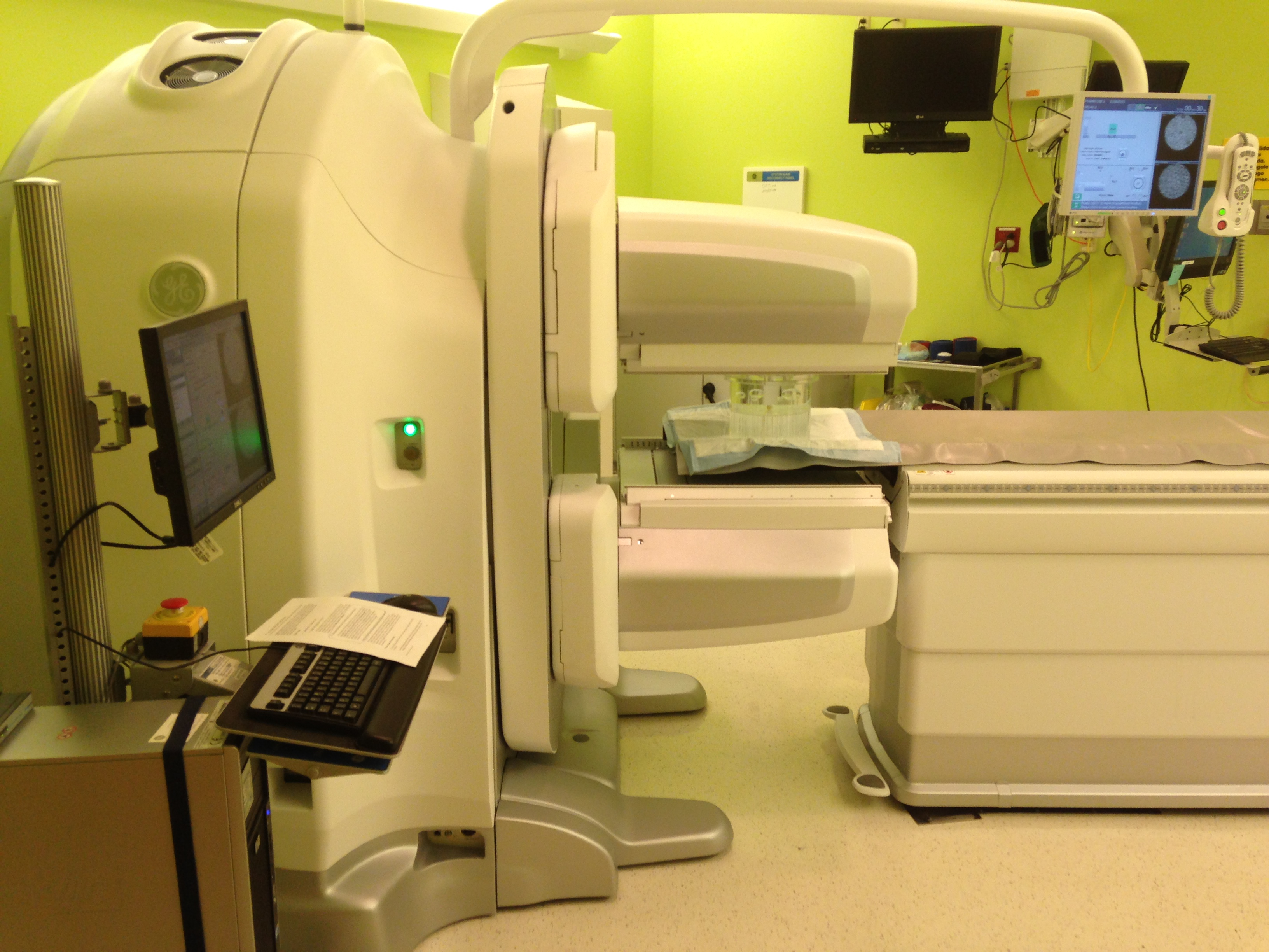 A GE SPECT-CT Optima 640